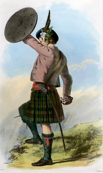 "Murray". A plate illustrated by R. R. McIan, from James Logan's The Clans of the Scottish Highlands, published in 1845.